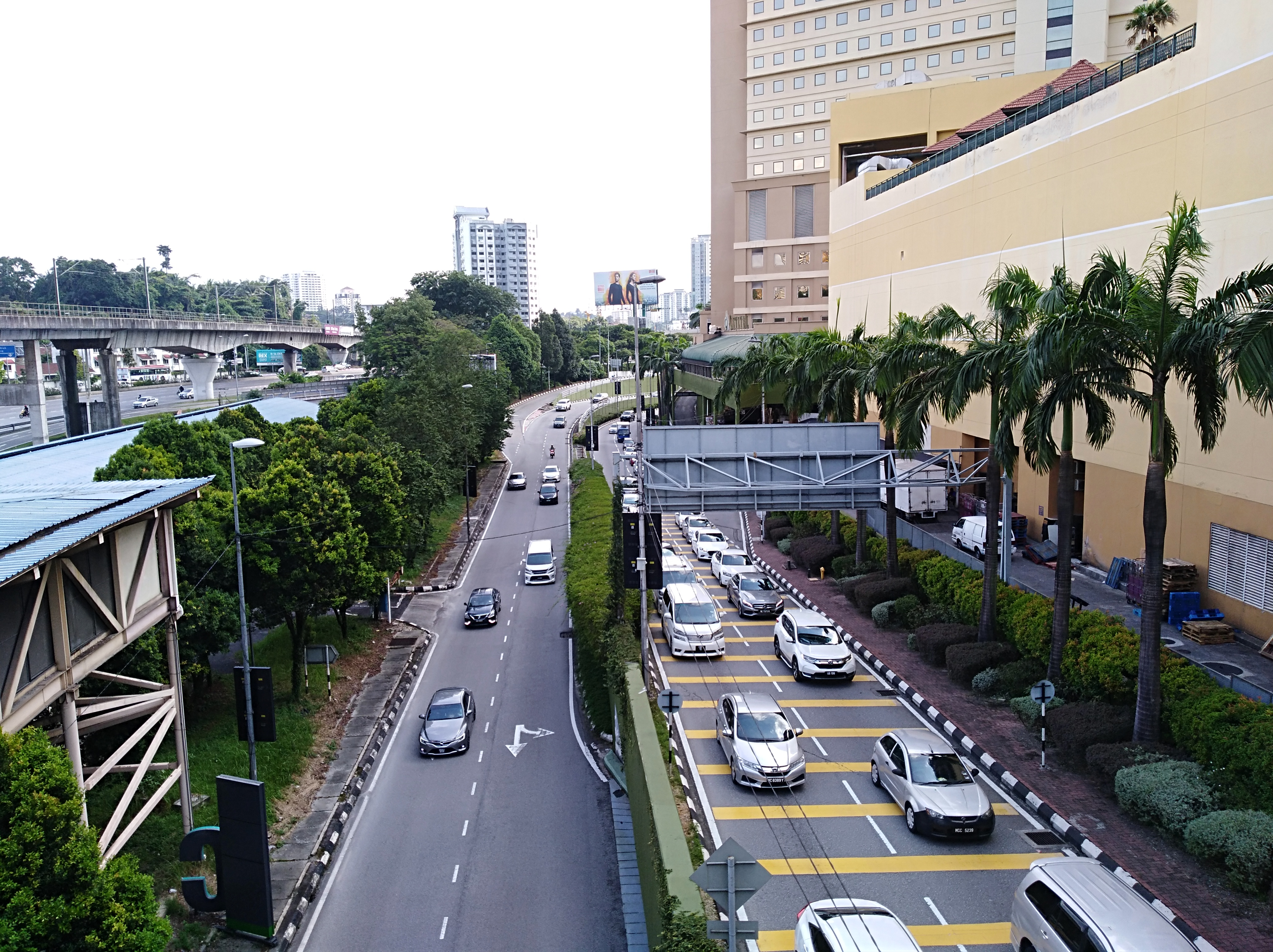 Taken on another holiday to meet my online friends in KL.